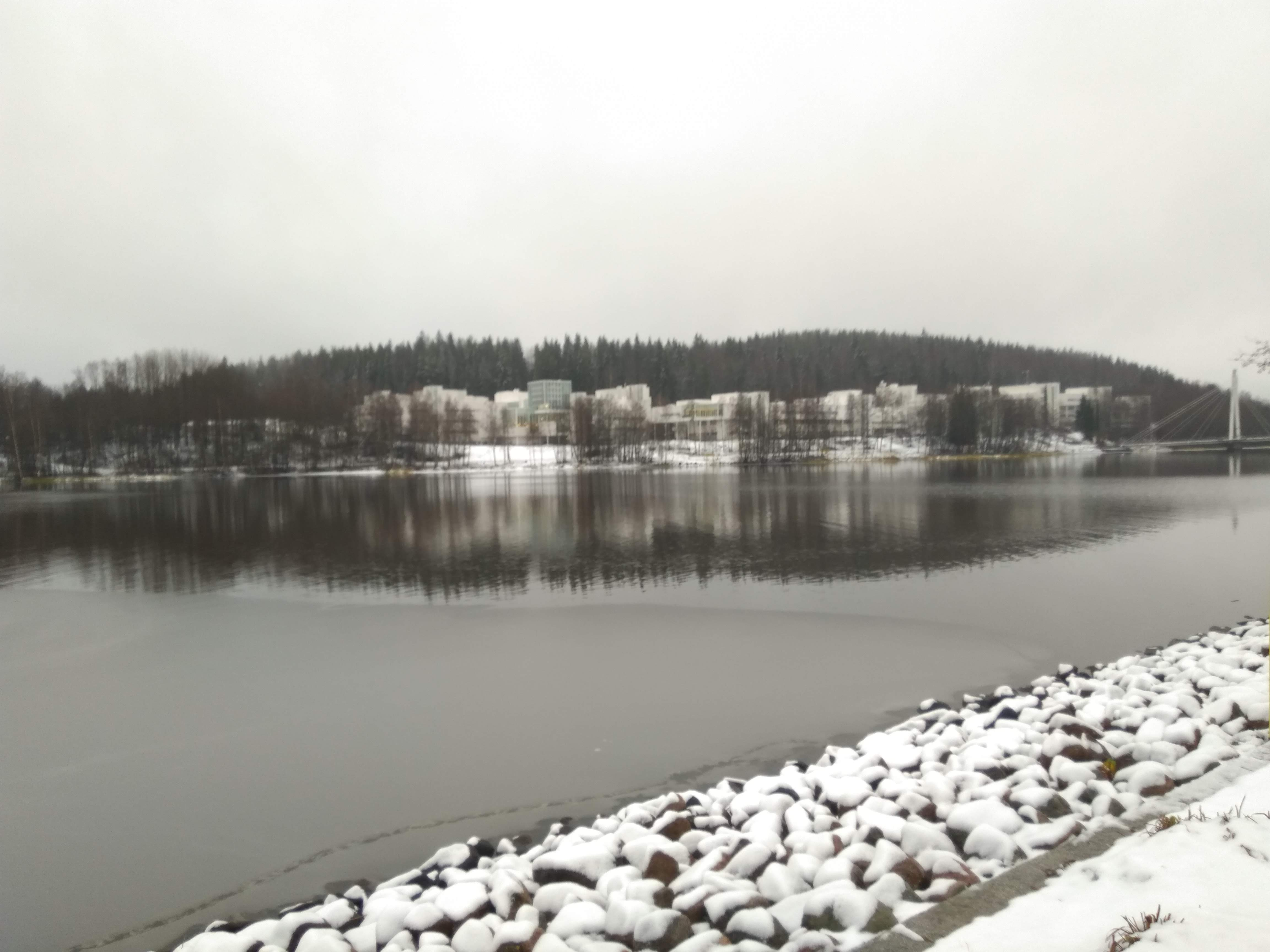 Ylistönrinne in Jyväskylä in November 2019, one of the campus of University of Jyväskylä